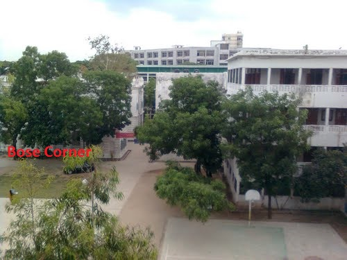 Bose corner in Jagannath university named according to the name of Scientist Jagadish chandra Bose